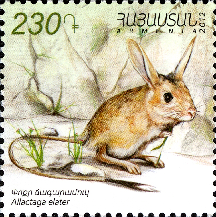 Flora and Fauna of Armenia - Small five-toed jerboa